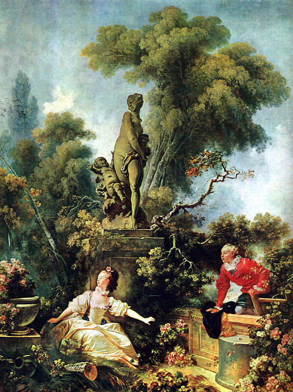 Jean Honore Fragonard's art